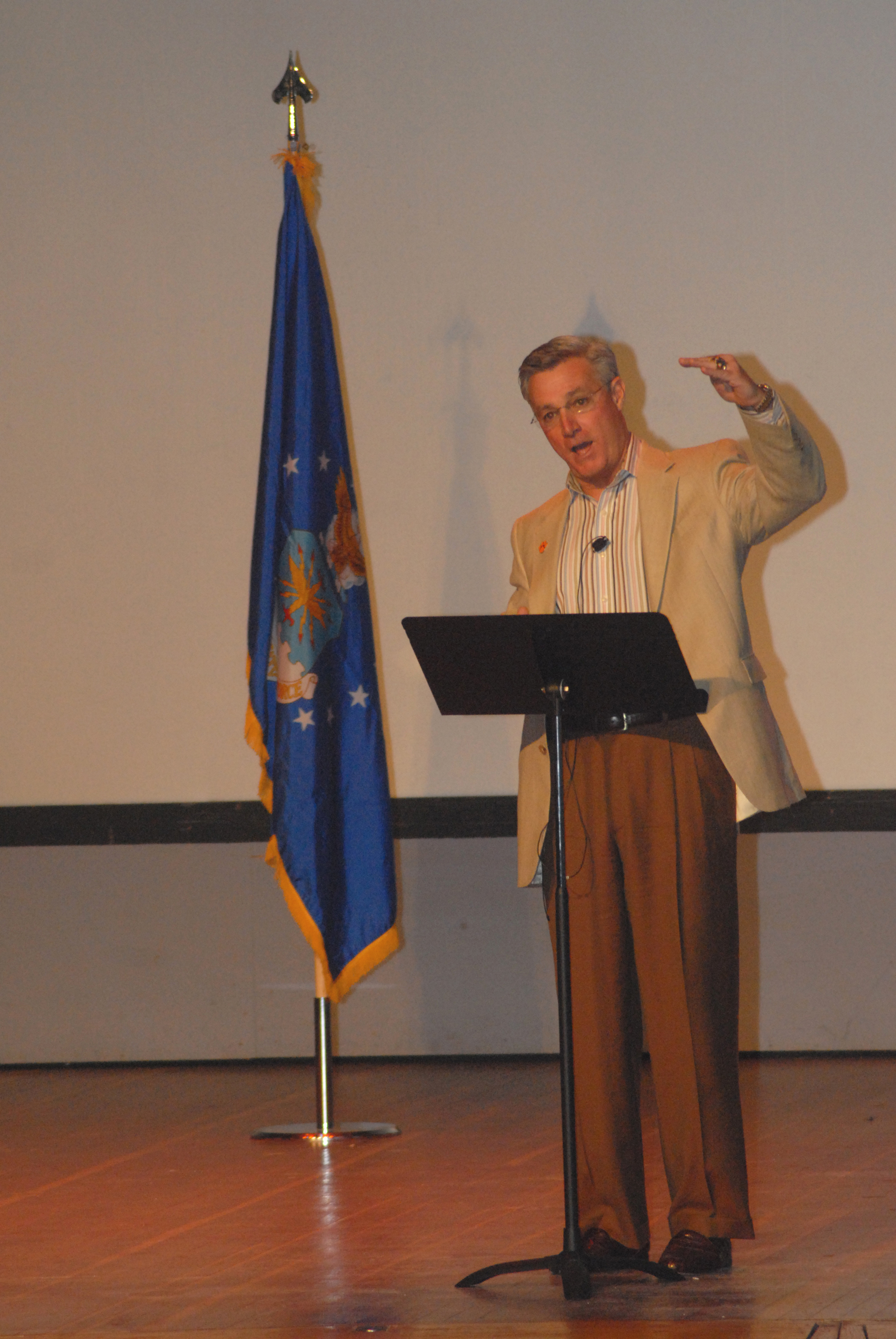 Clemson University Head Football Coach Tommy Bowden spoke to Pope Airmen at the theater here during the National Prayer Luncheon April 17. The event featured record attendance with more than 500 people served. Three religions were highlighted throughout the lunch and also featured “tailgate” style food and the Fayetteville State Chorus. (U.S. Air Force Photo by Staff Sgt. Jon LaDue)